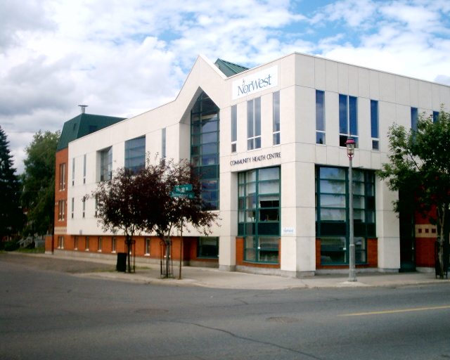 NorWest Health Centre in Thunder Bay, Ontario